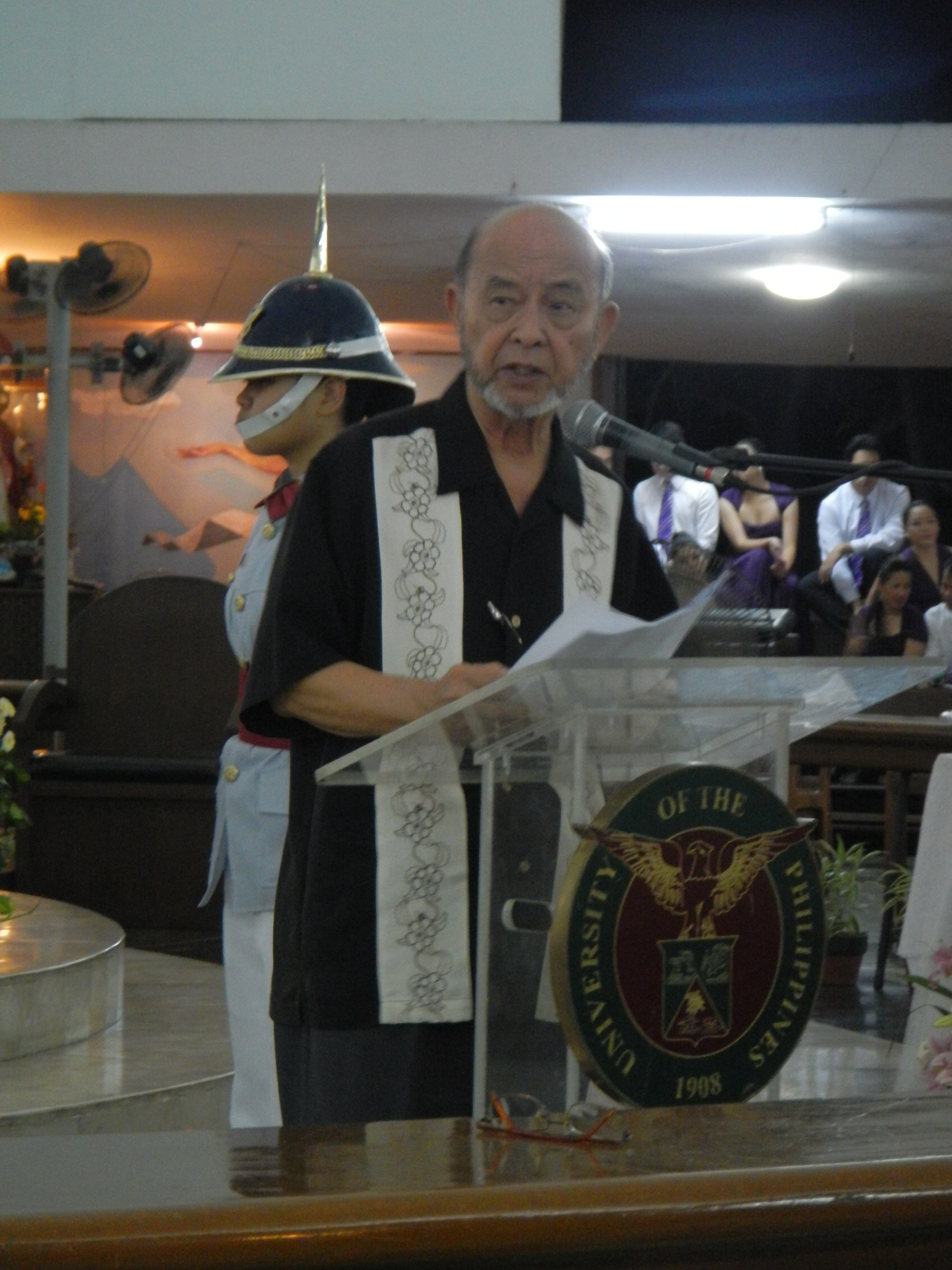 José V. Abueva[1]Dr. José Veloso Abueva was the 16th president of the University of the Philippines. A Ten Outstanding Young Men (TOYM) awardee for political science in 1962, he has devoted much of his career in academic circles. He has been faculty member of the UP National College of Public Administration and Governance and visiting professor at Brooklyn College, City University of New York and Yale University. He has also worked with the United Nations University in Tokyo. He is now professor emeritus of political science and public administration at UP. Professor Abueva's service to the nation includes stints as secretary of the 1971 Constitutional Convention, executive director of the Legislative-Executive Local Government Reform Commission and Chairman of the Legislative-Executive Council that drew up the conversion program for former military bases. Professor Abueva has written a number of books, including "Focus in the Barrio: The Foundation of the Philippine Community Development Program" and "Ang Filipino sa Siglo 21." Among the publications he has edited is the 20-volume "PAMANA: The UP Anthology of Filipino Socio-Political Thought since 1872." Abueva is a Filipino educator and author. He was the president of the University of the Philippines from 1987 to 1993. He is currently the President of Kalayaan College as well as U.P. Professor Emeritus of Political Science and Public Administration. He also chairs the advisory board of the Citizens Movement for a Free Philippines. He was elected by President Gloria Macapagal-Arroyo as chairman of the consultative constitutional commission in the Philippines. He is a strong supporter of federalism and parliamentary government for the Philippines. He forms the team of analysts of Pulse Asia, a public opinion polling body in the Philippines. - at the Onofre Corpuz[2][3] UP necrological service (Eulogy[4])of April 1, 2013 at the Parish of the Holy Sacrifice[5], UP Diliman.